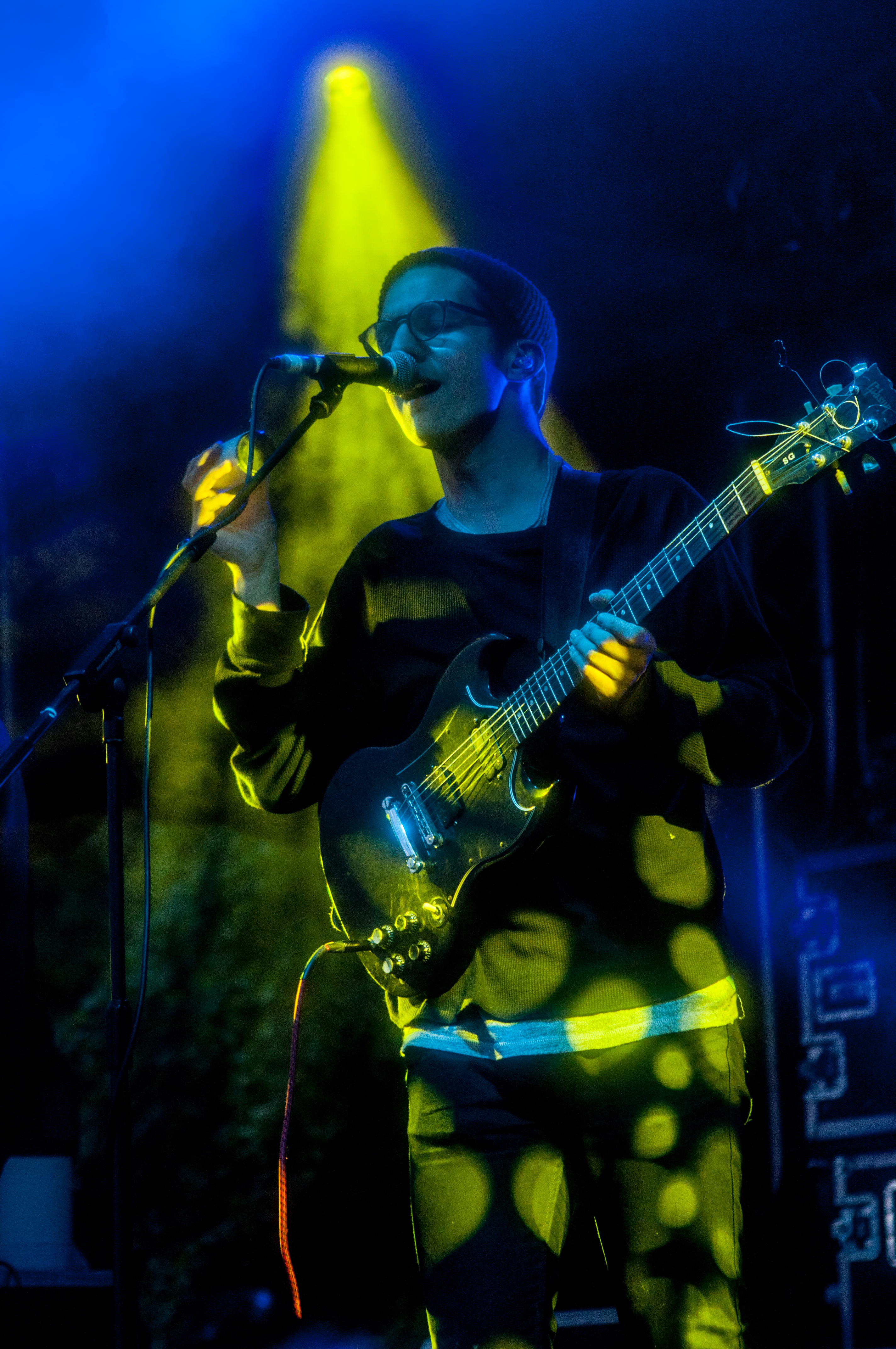 Dan Croll @ Farm Feast at Claremont Farm 2014